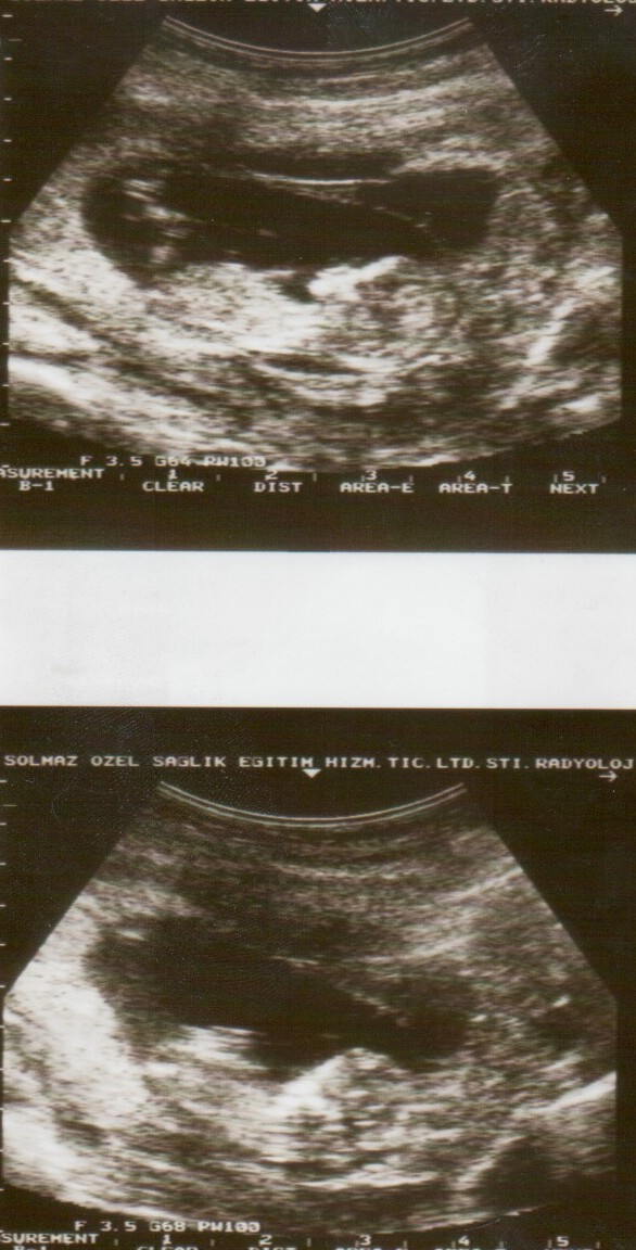 Ultrasound scan. Detachment of placenta. Provided as-is. Please feel free to categorise, add description, crop or rename.